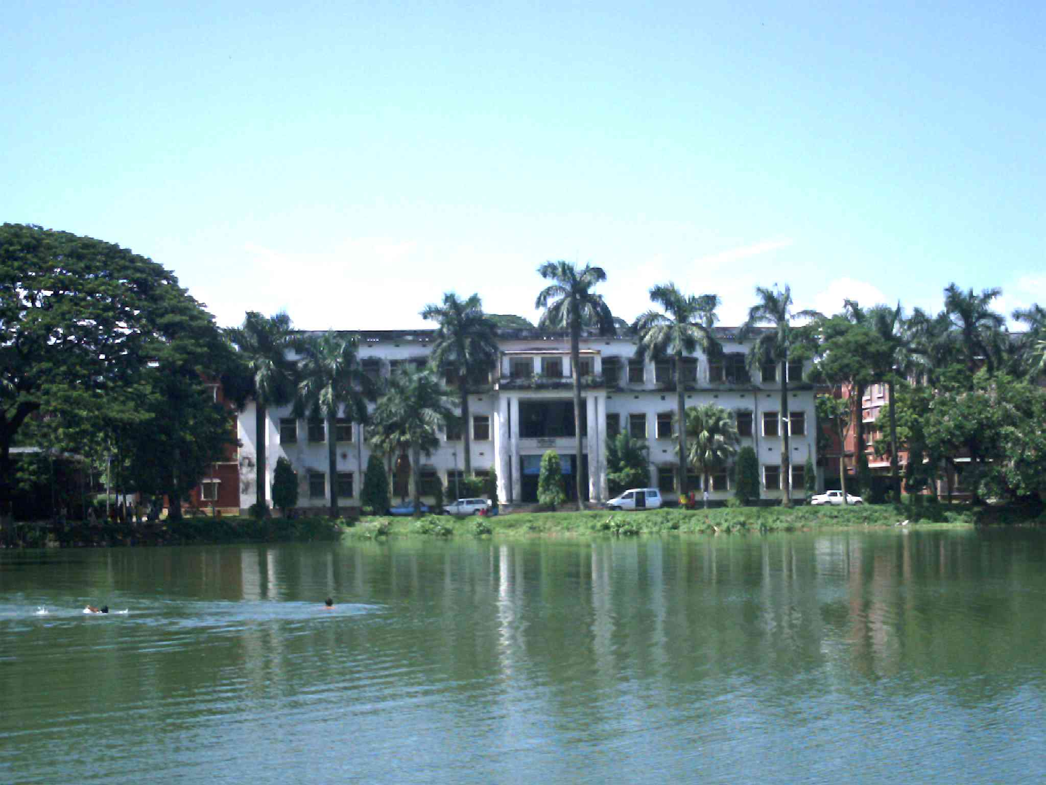 Zoology department. University of Dhaka, Bangladesh.